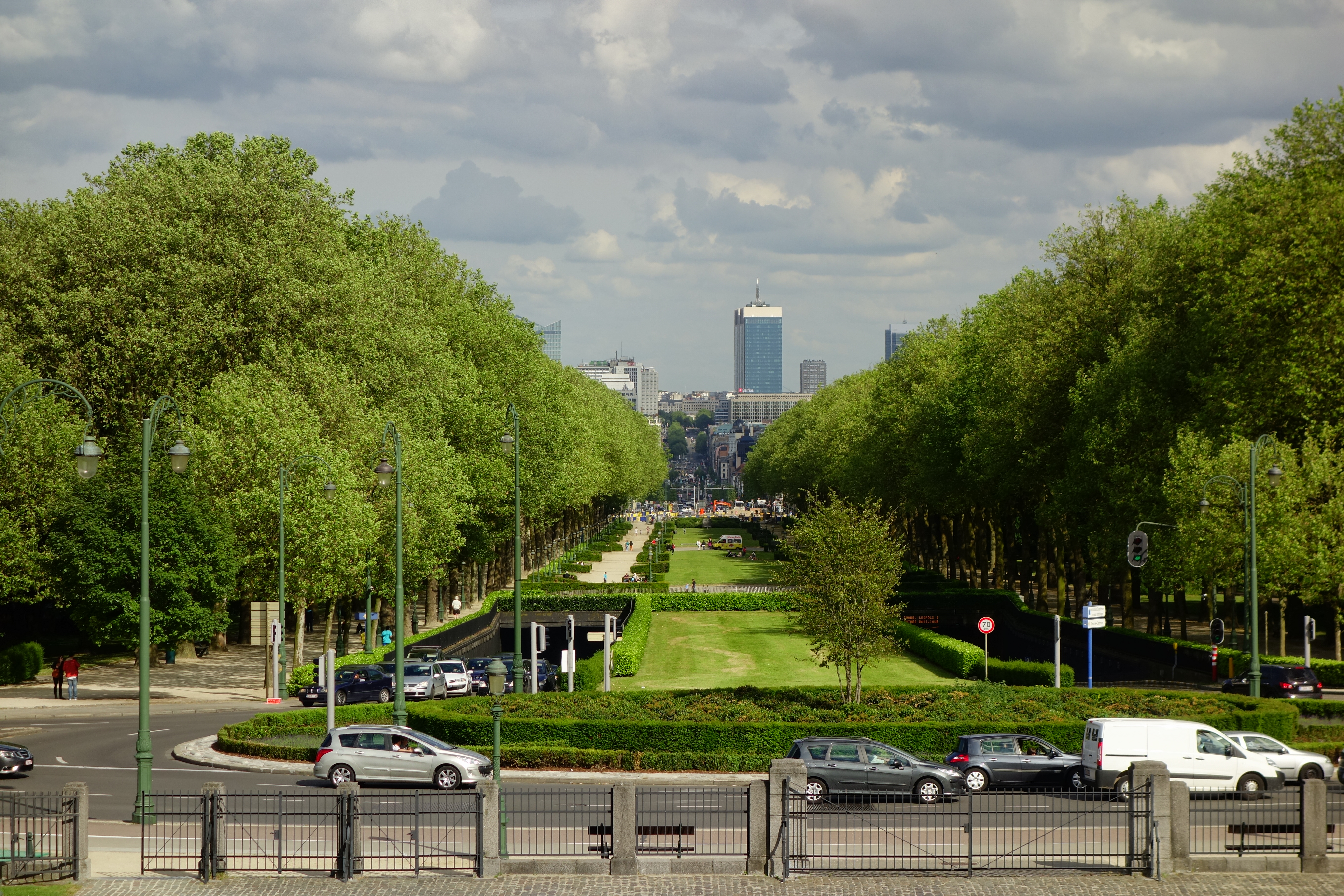 Elisabeth parc in Brussels (Koekelberg)